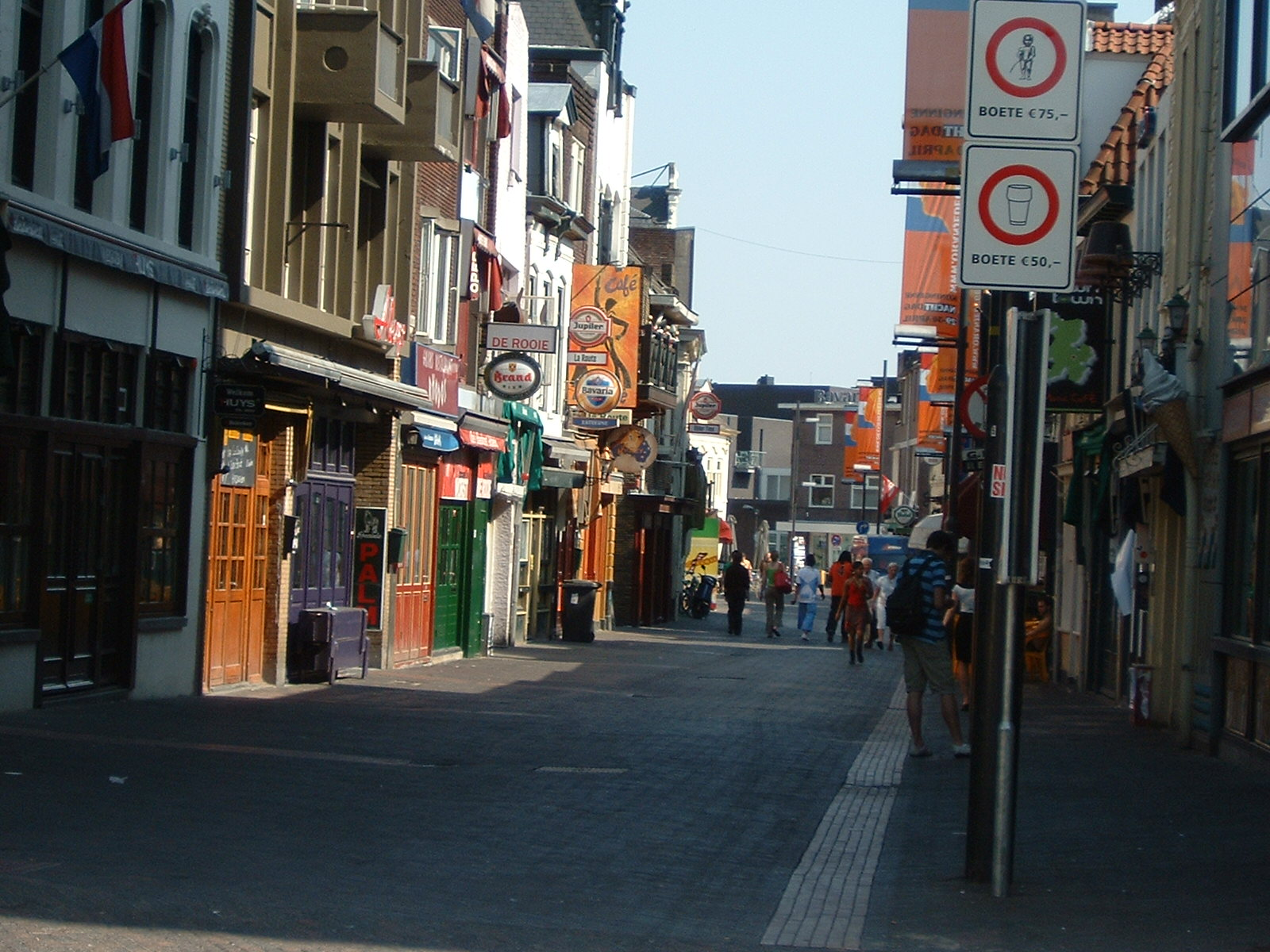 Stratumseind, a street in Eindhoven.